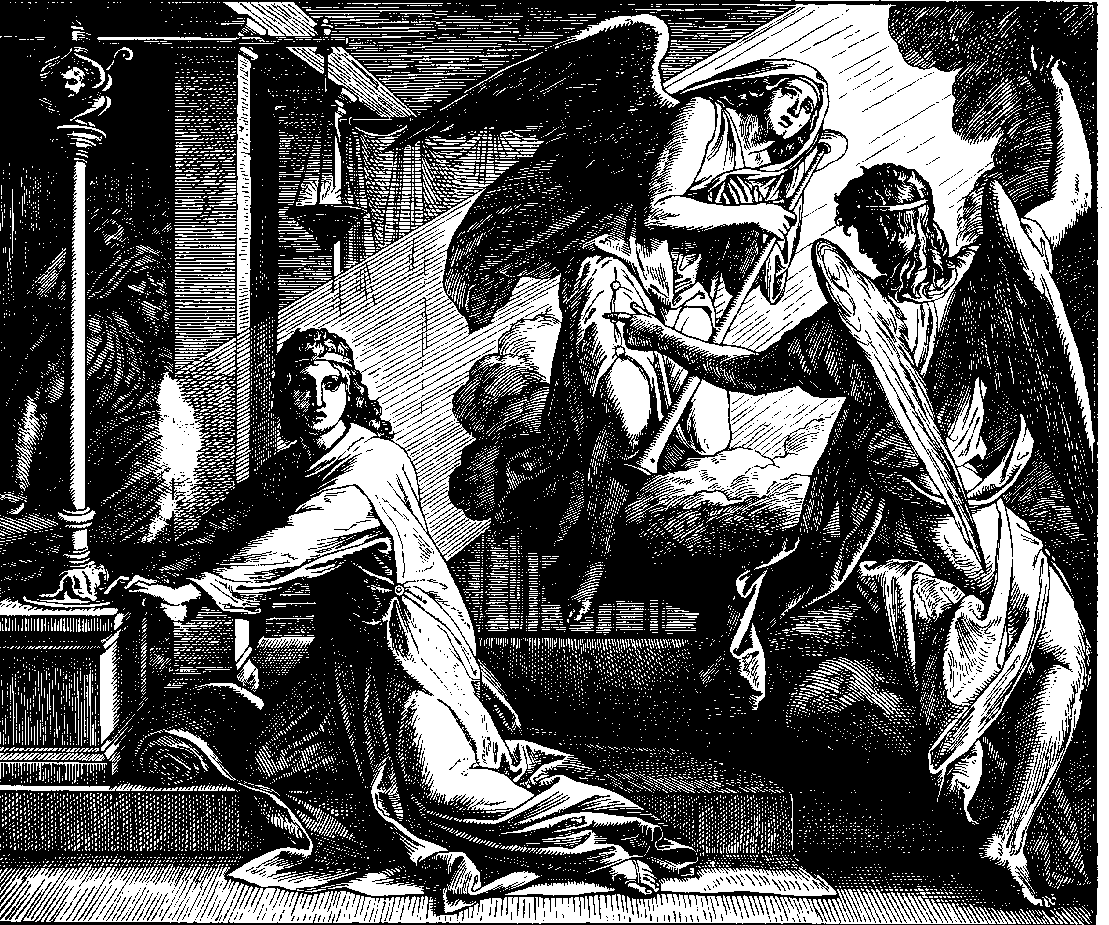 Woodcut for "Die Bibel in Bildern", 1860.